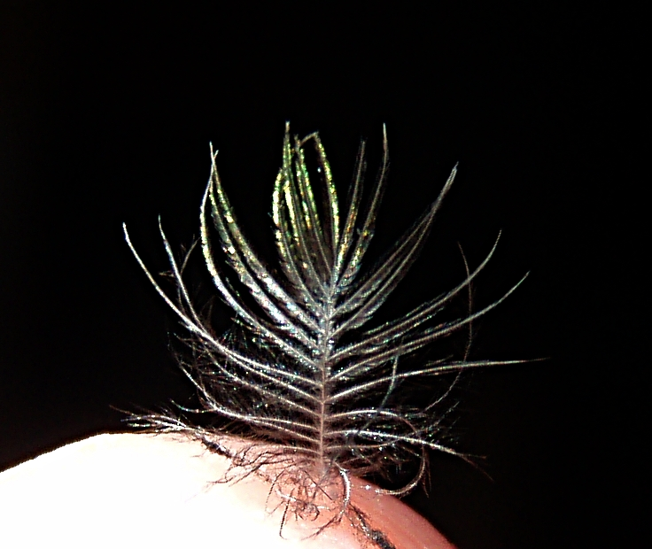 A hummingbird feather with Iridescent colors is sitting at my finger.